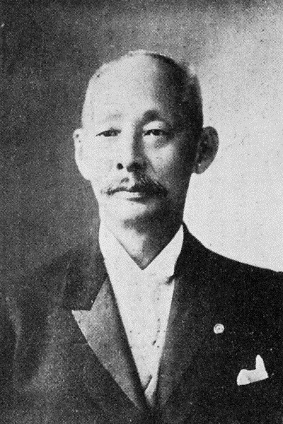 Kokichi Sonoda